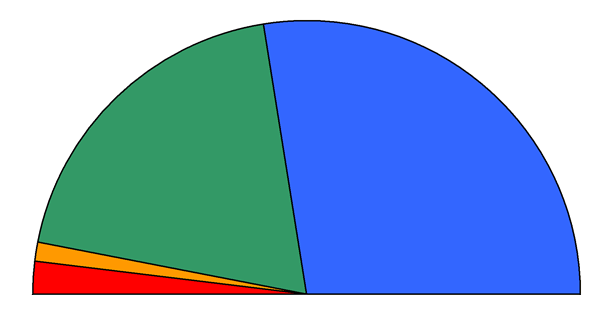 Greek legislative elections, 2004 Nea Dimokratia: 165 seats PASOK: 117 seats KKE: 12 seats SYRIZA: 6 seats